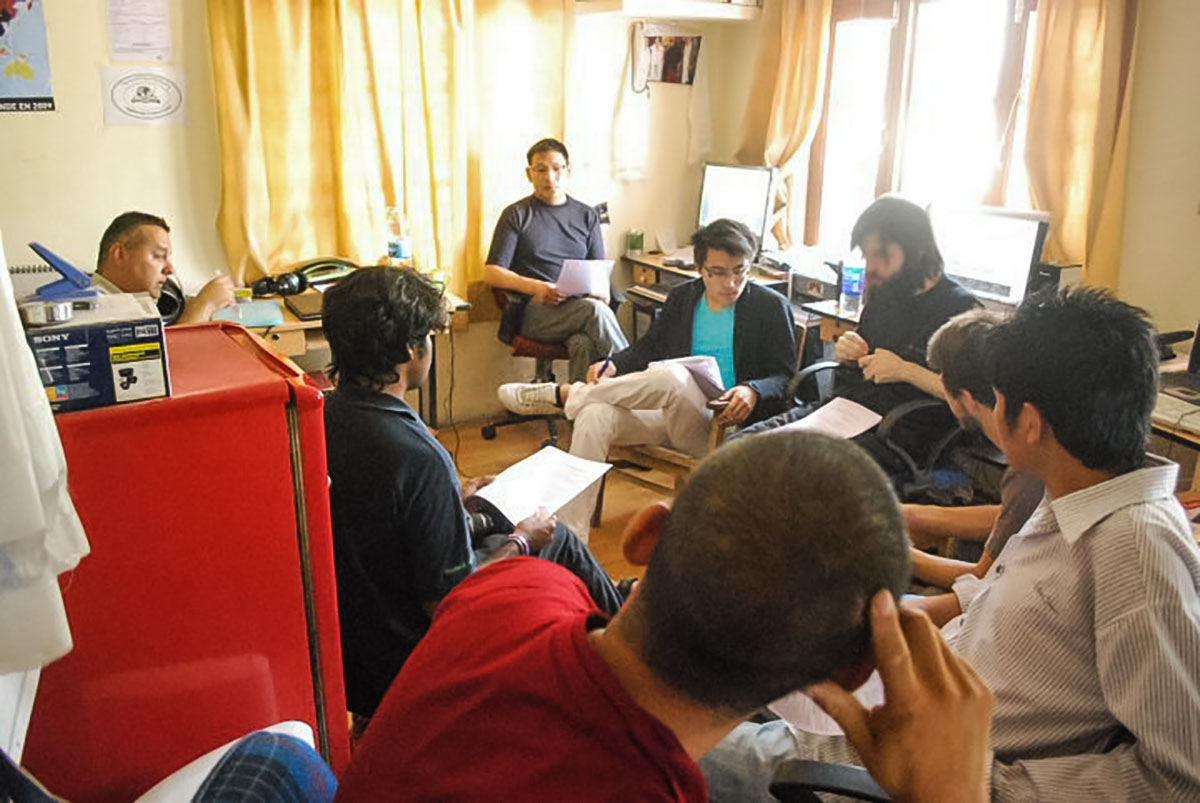 TPI is a non-profit-making organization and was founded by a group of young Tibetan journalists with the primary goal of promoting democracy through freedom of expression within Tibetan communities, both in exile and in Tibet.